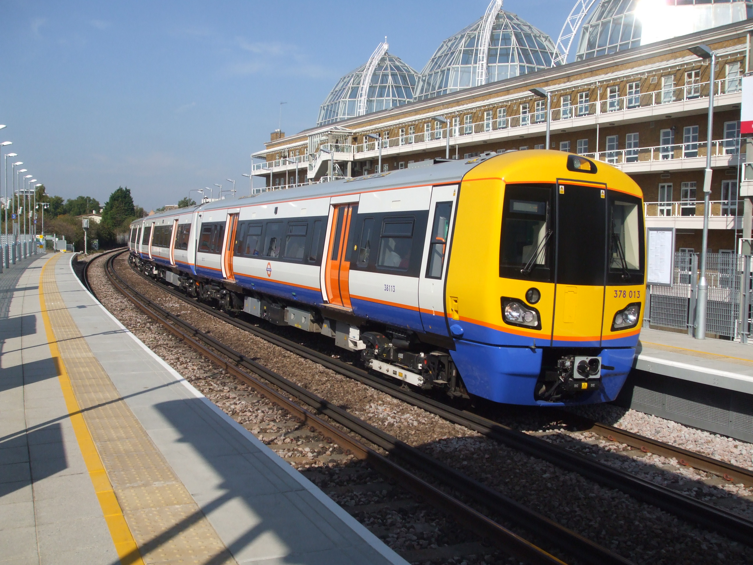 Class 378 unit 378013 calls at the brand new Imperial Wharf station (opened that very day) with a London Overground service to Clapham Junction.